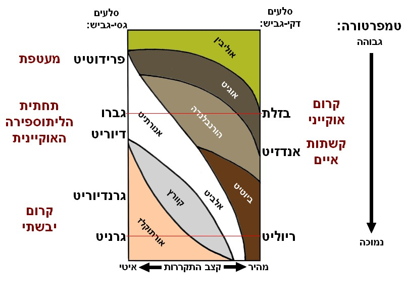 Crystallization ranges of minerals in magma